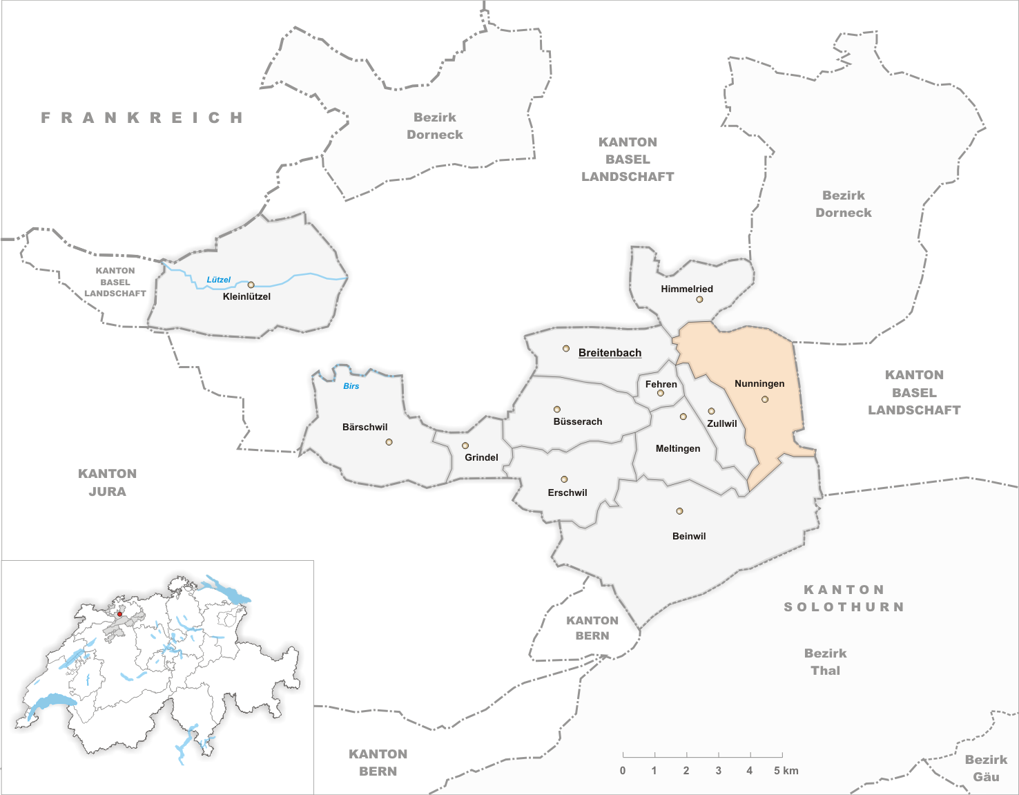 Municipality Nunningen